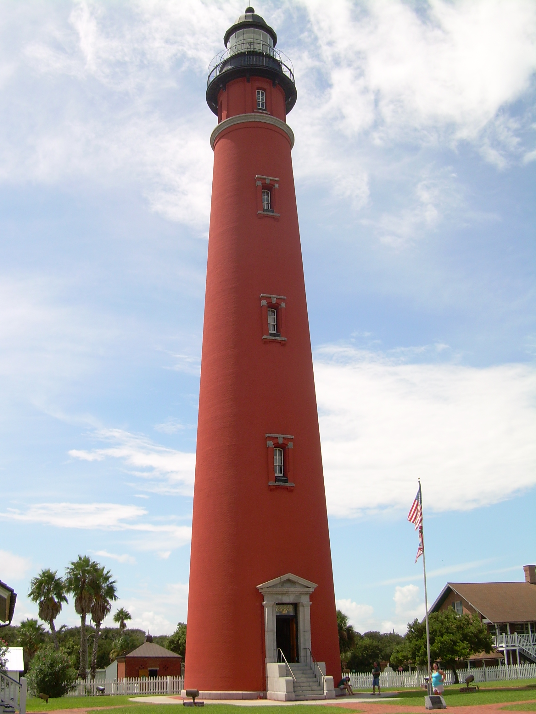 Ponce Inlet Lighthouse at Ponce Inlet, Florida